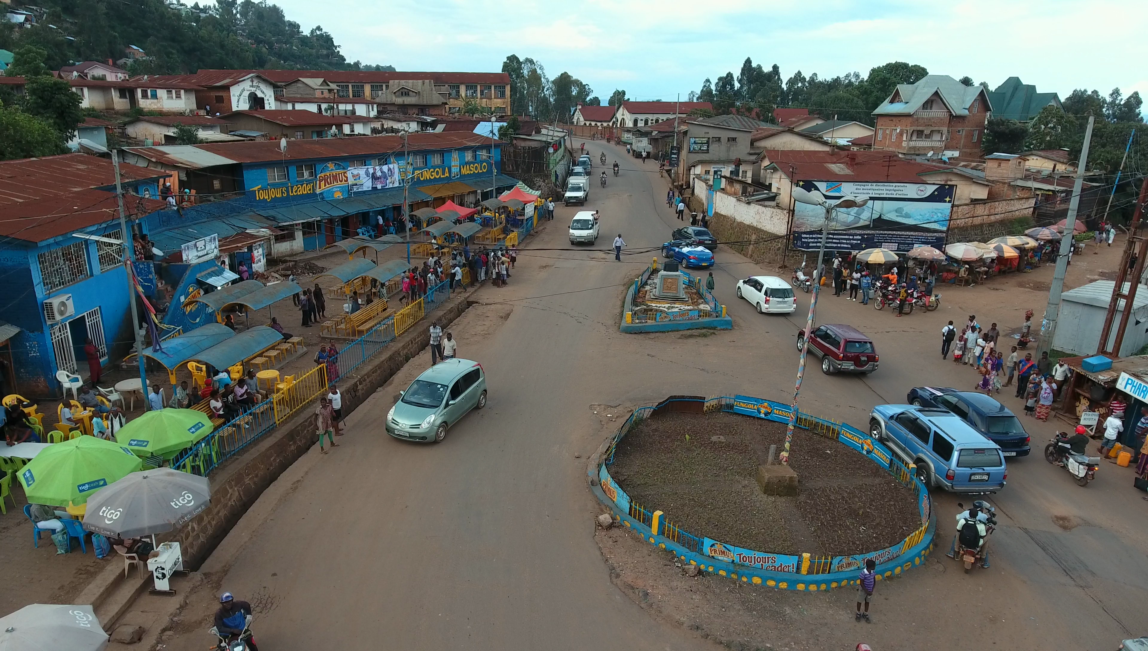 MONUMENT ANCIEN COOPERA This is an image of "African people at work" from Democratic Republic of the Congo